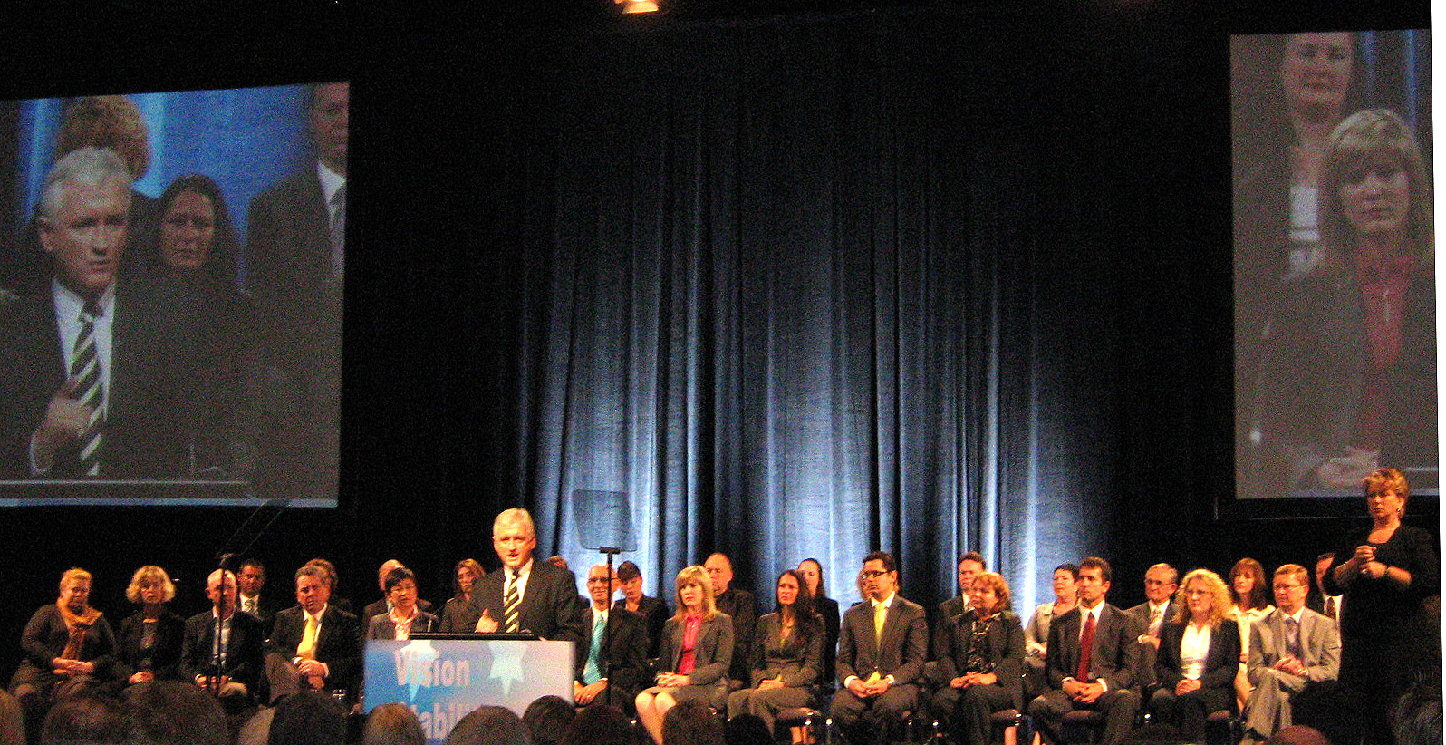 Premier Alan Carpenter launching the Labor campaign for the 2008 state election.